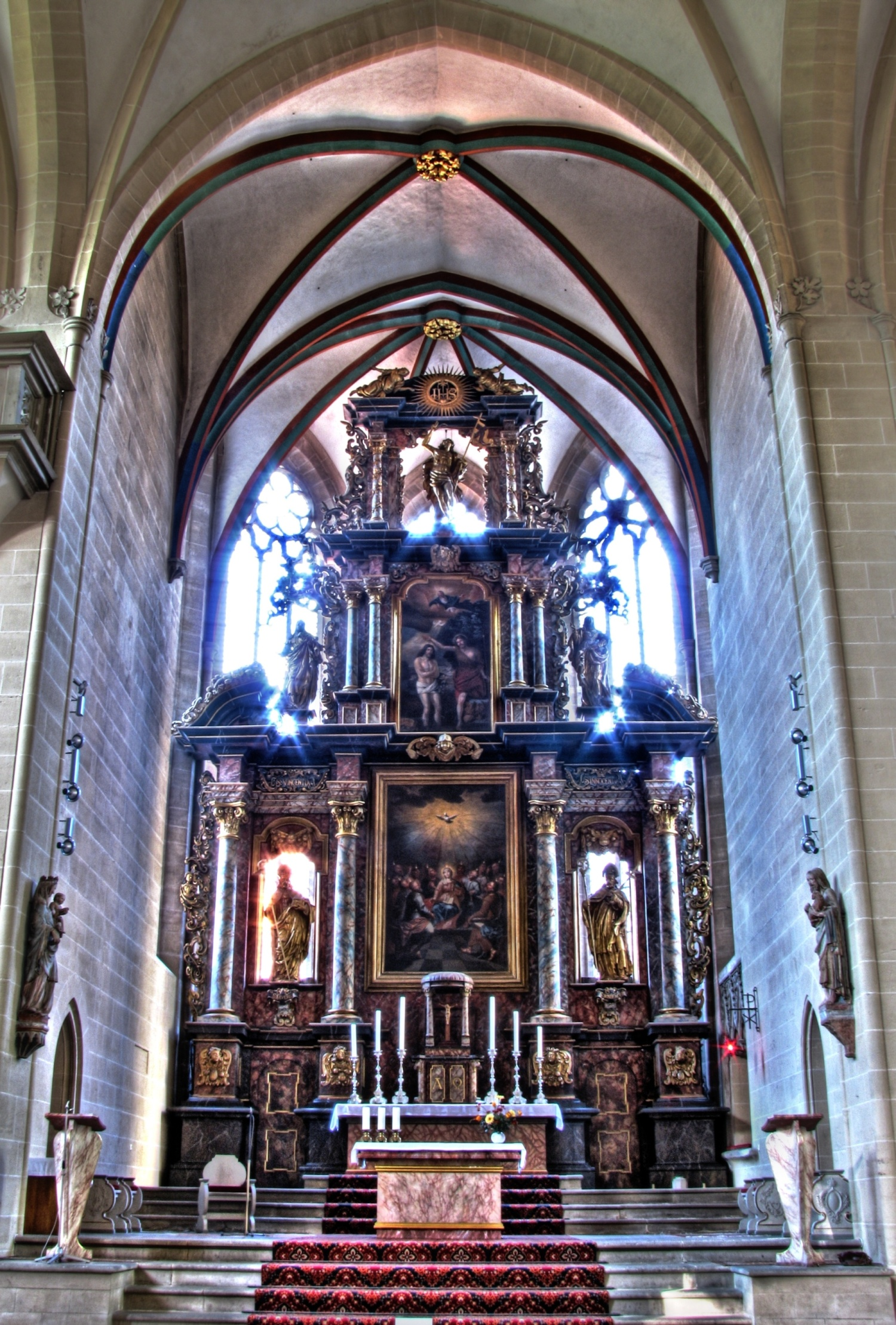 the altar of the severi church in erfurt, hdri